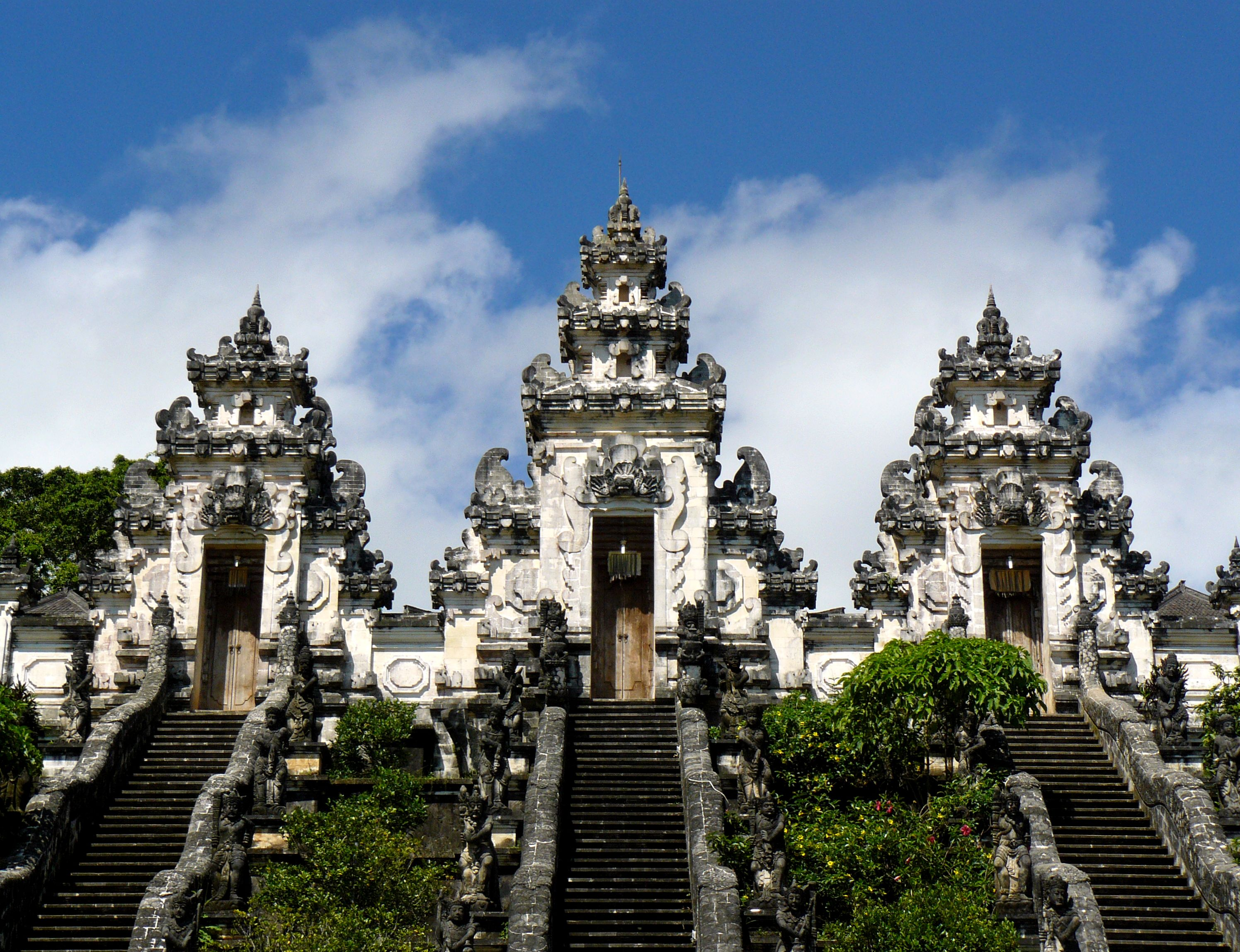 Pura Penataran Lempuyang, Gunung Lempuyang, East Bali